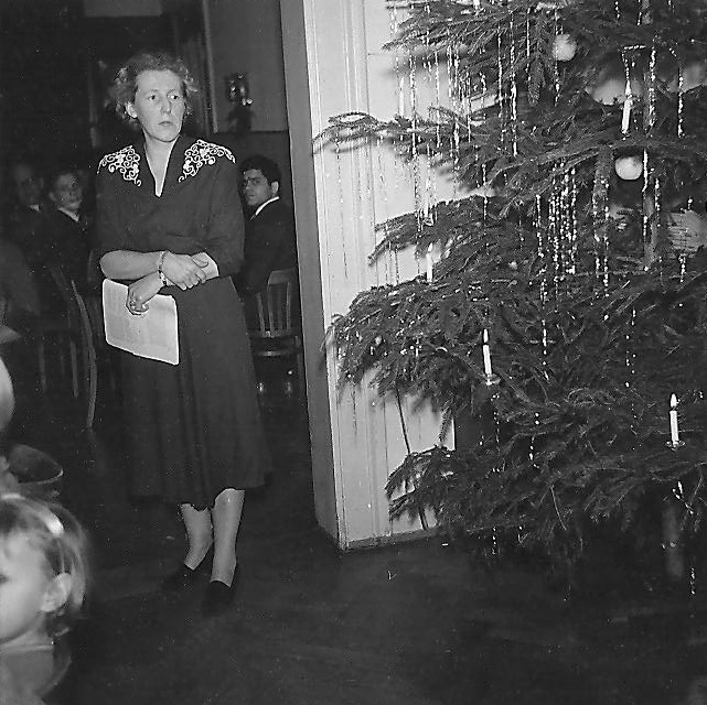 Lieselotte Hachmann at a christmas speech in 1954 in kind of christmas meeting of Deutsch-Indischen Gesellschaft in Hamburg e.V. ([DIG])